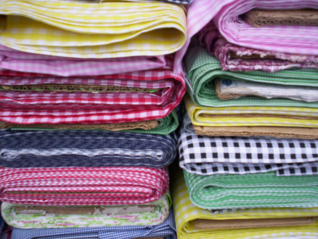 I Love me the Gingham